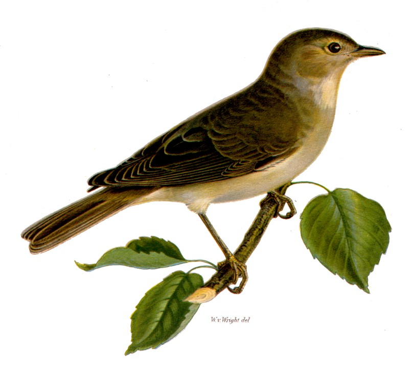 Sylvia borin